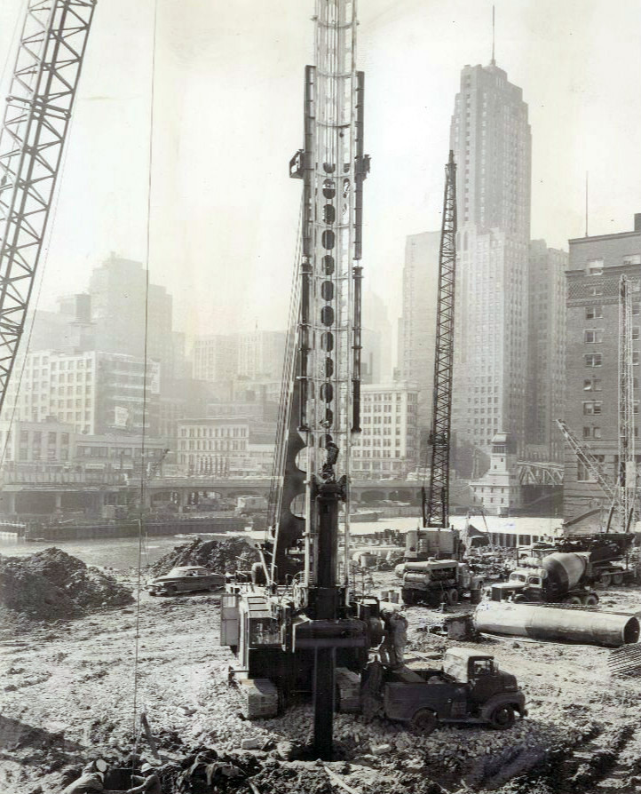 Photo of the foundation being laid for Chicago's Marina City.